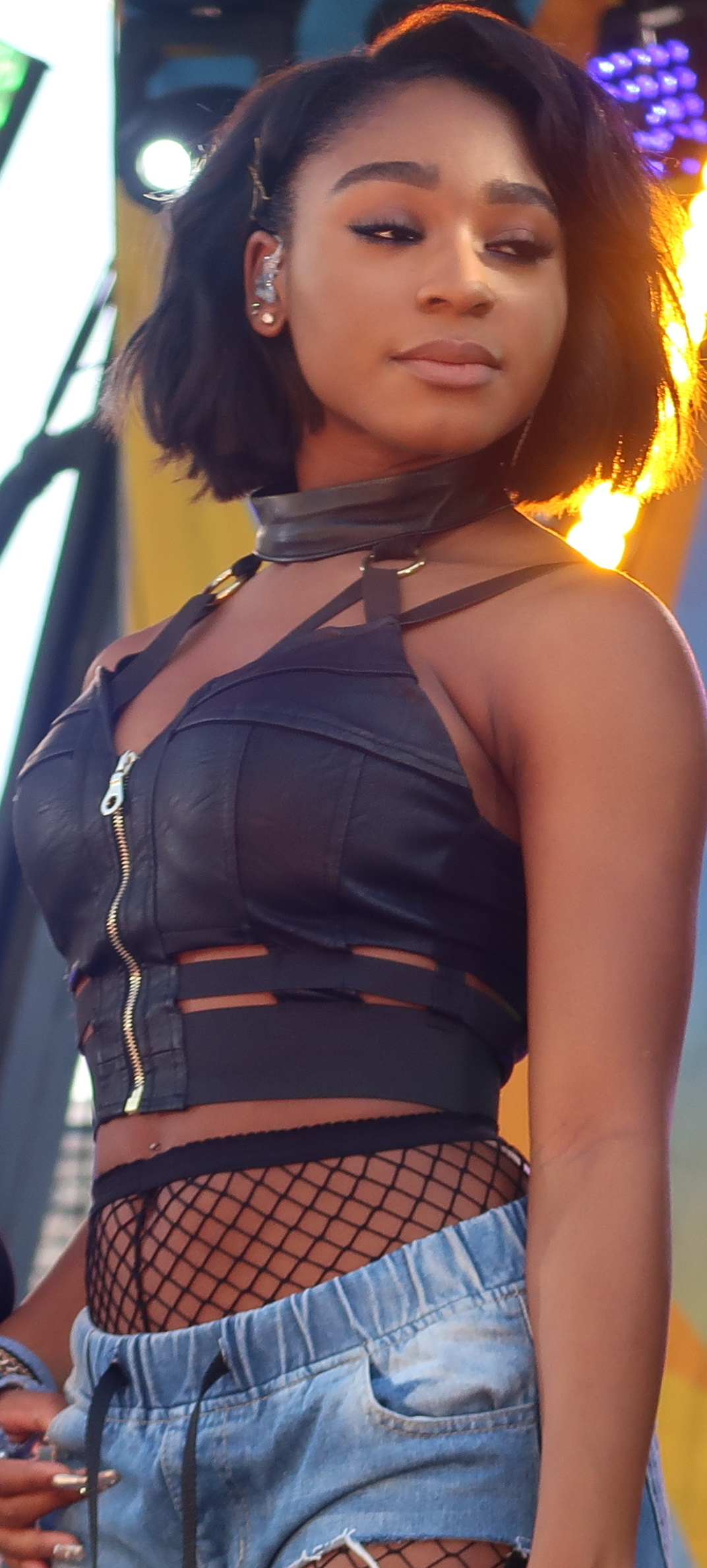 fifth_harmony3